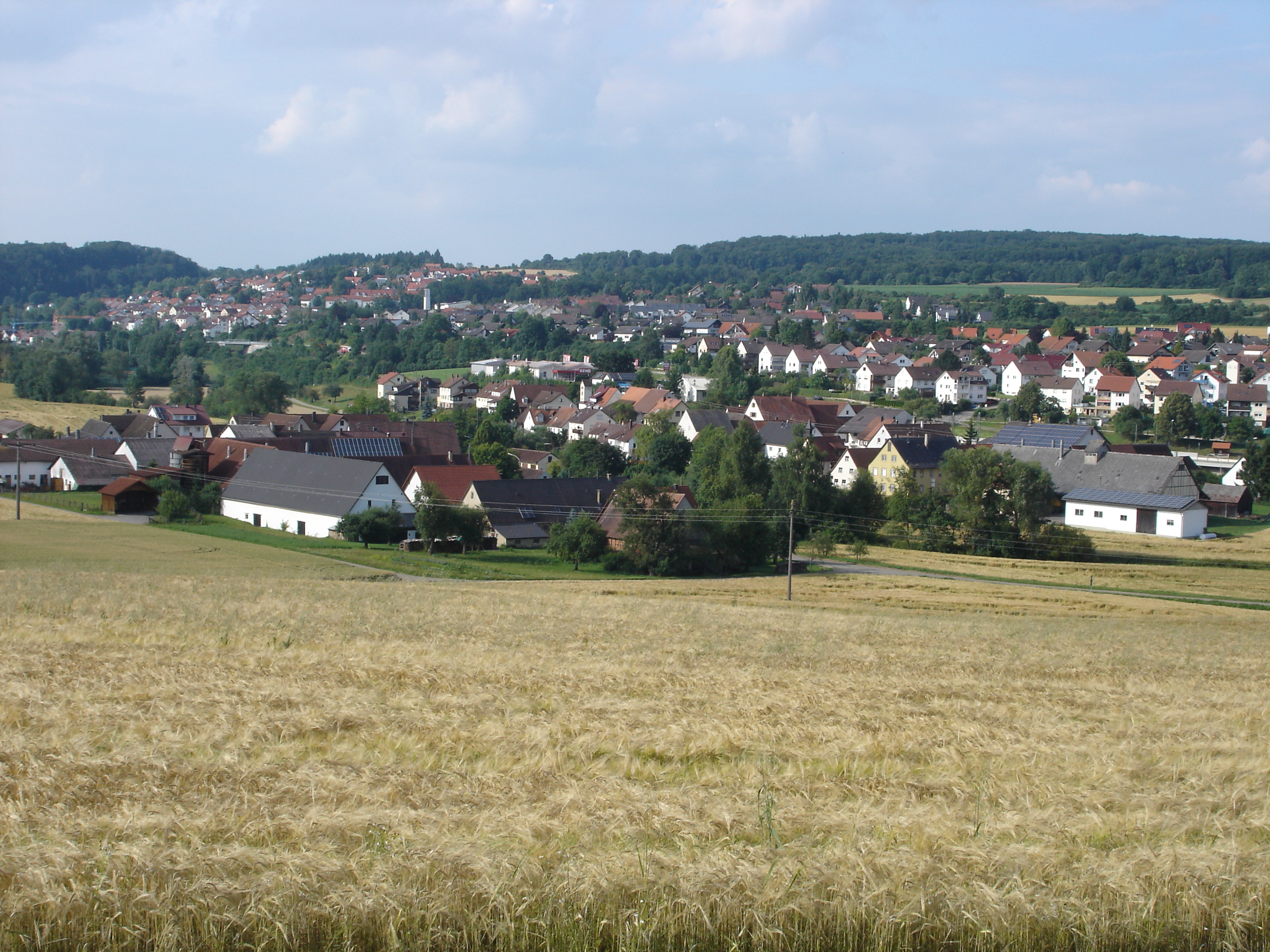 old part Halzhausen, incorporated village of Lonsee